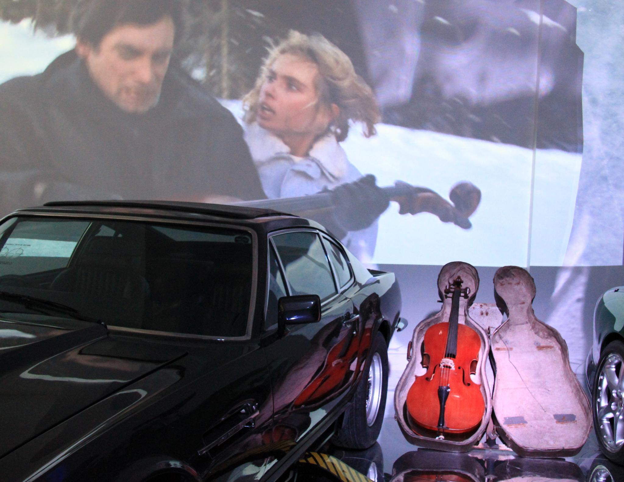 BOND in MOTION 50 Vehicles. 50 Years The Living Daylights - Timothy Dalton Cello Case Sled With his car disabled, Bond has to think quickly in order that he and Kara can escape the Police during the movie The Living Daylights. The cello case makes an ideal sled for them as they race downhill evading their pursuers. The World of James Bond 007 is full of action, excitement, drama and danger. The high octane, all action car and vehicle chases are at the heart of the Bond franchise. There is unique story behind every vehicle and every death defying stunt culminates in the exhilarating screen image. From speed boats leaping roads and cars submerging to exotic locations, ranging from tropical islands to the North Pole the action never ceases. Vehicles with gadgets and armouries add to the thrills with Bond having to be ever more resourceful in his battles with the increasingly technical and sophisticated villains. BOND in MOTION is the story of the vehicles that keep the man behind the wheel moving and how the thrill a minute chase sequences pushed man and machine to the limit. This new exhibition to Beaulieu is the world's largest official collection of original James Bond vehicles, on display for 2012 only, featuring 50 vehicles from the Bond films. With fifty vehicles on display, BOND IN MOTION is the largest official collection of original Bond vehicles the world has ever seen. On display until the 6th January 2013 at the National Motor Museum, this could be your only chance to see these vehicles on display together. 2012 marks the 50th anniversary of the James Bond film series and the 40th anniversary of the National Motor Museum (and the 60th anniversary of Beaulieu opening its doors to the public) and what better way to celebrate than with the biggest exhibition of James Bond vehicles ever staged? Cars used in films starring Sean Connery, George Lazenby, Roger Moore, Timothy Dalton, Pierce Brosnan and Daniel Craig all feature in the exhibition.